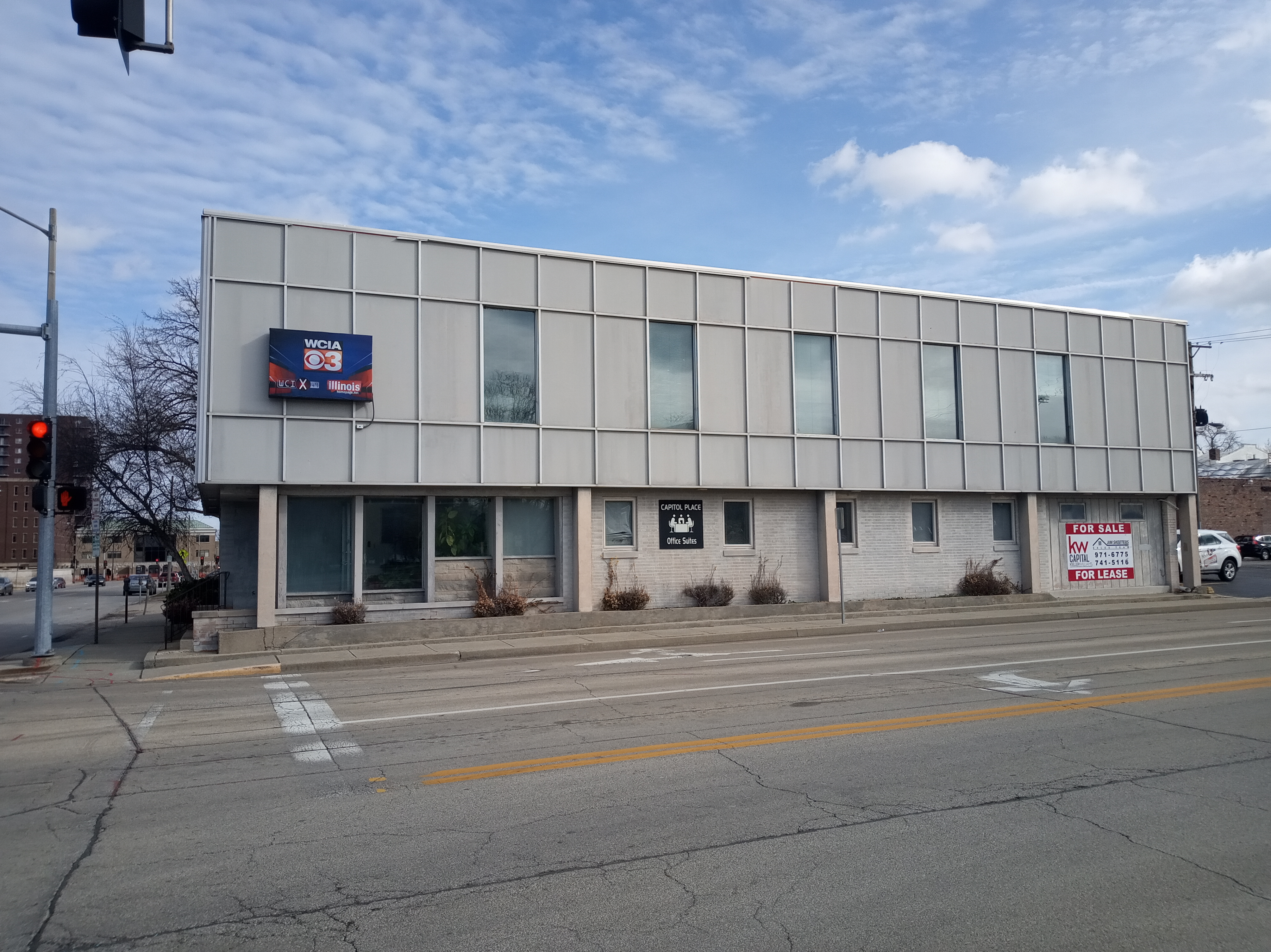 Former site of the home of 1908 lynching victim William Donegan at 118 West Edwards Street in Springfield Illinois, now a small commercial building housing the Springfield news bureau of WCIA, a local CBS affiliate.